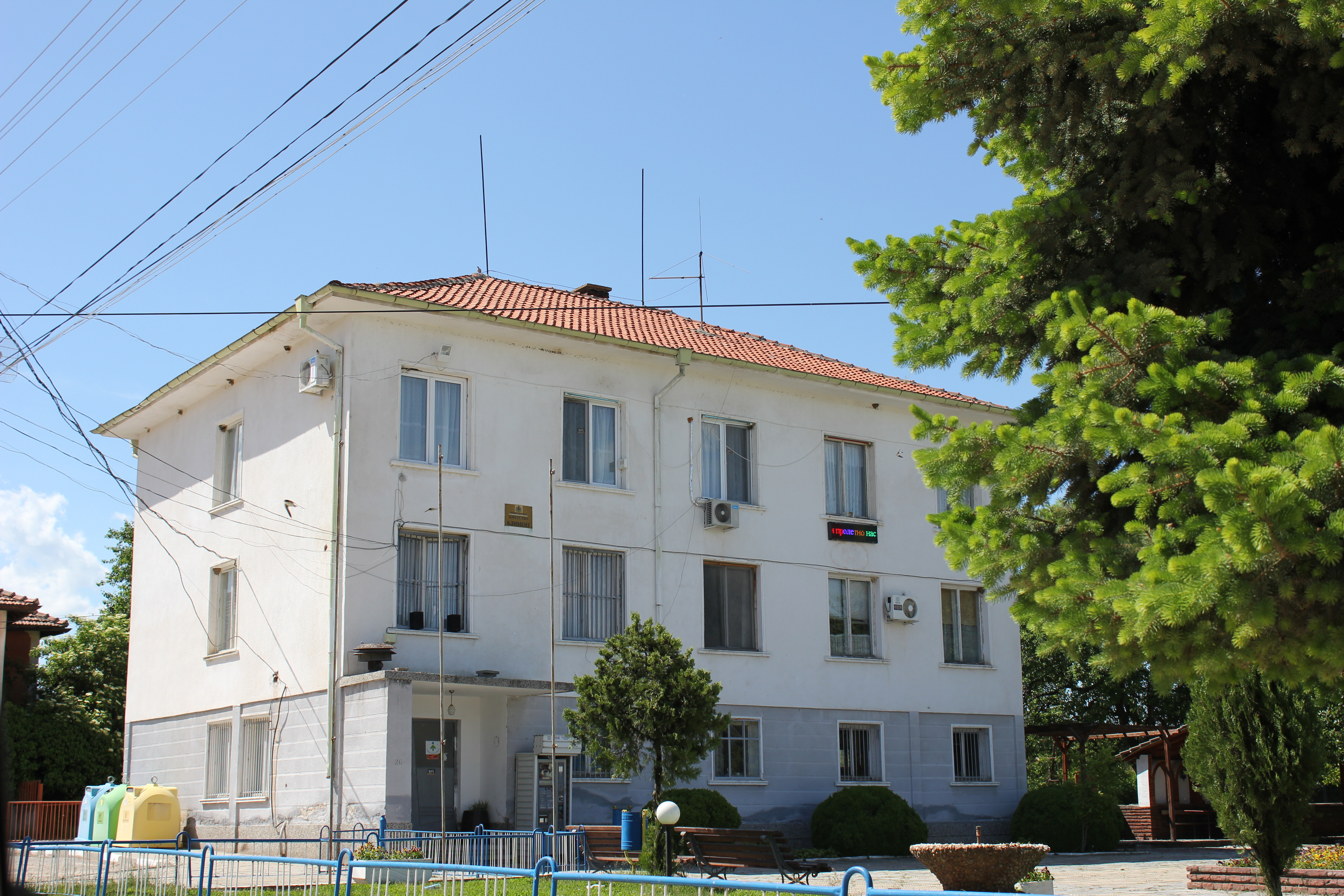 Kliment town hall